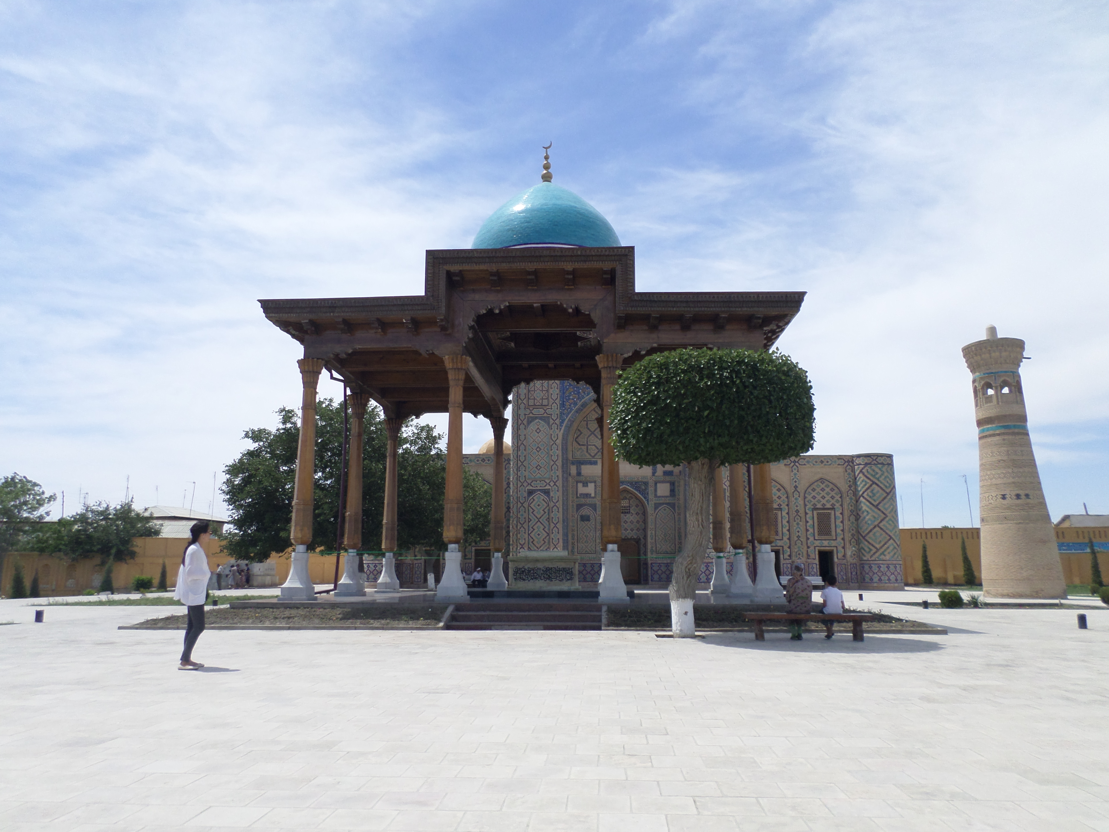 Ulugh-Beg madrasah in Gijduvan